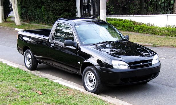 It's a Ford Courier picture